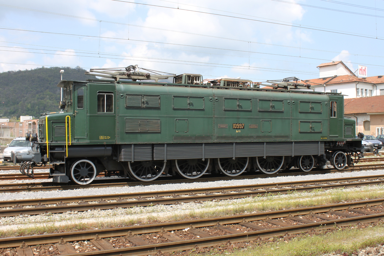 Ae 4/7 10997 at Mendrisio train station.